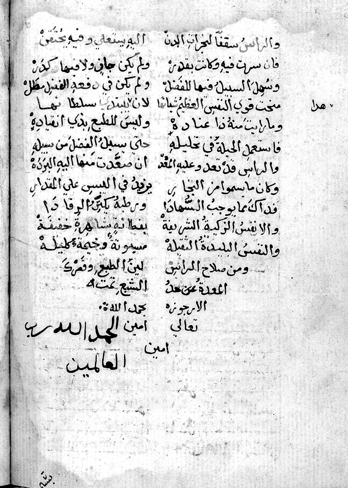 Text Asian Collection Keywords: anatomy, arabic; Avicenna